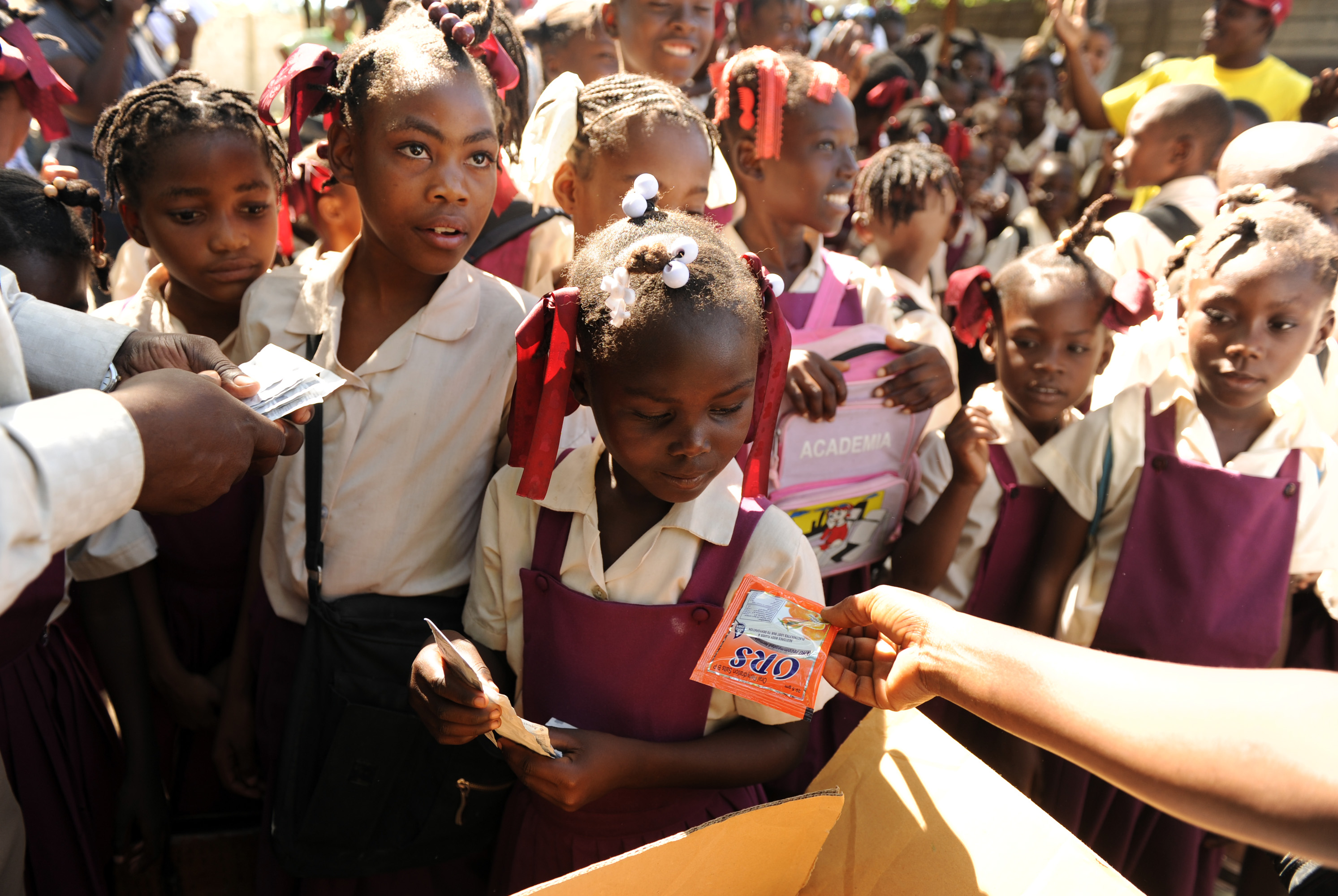 Schoolchildren pick up oral rehydration salts distributed by USAID/OFDA grantee Mercy Corps at a community cholera awareness activity near Mirebalais, Haiti, on Jan. 26, 2011. Photo copyright Kendra Helmer/USAID All rights reserved